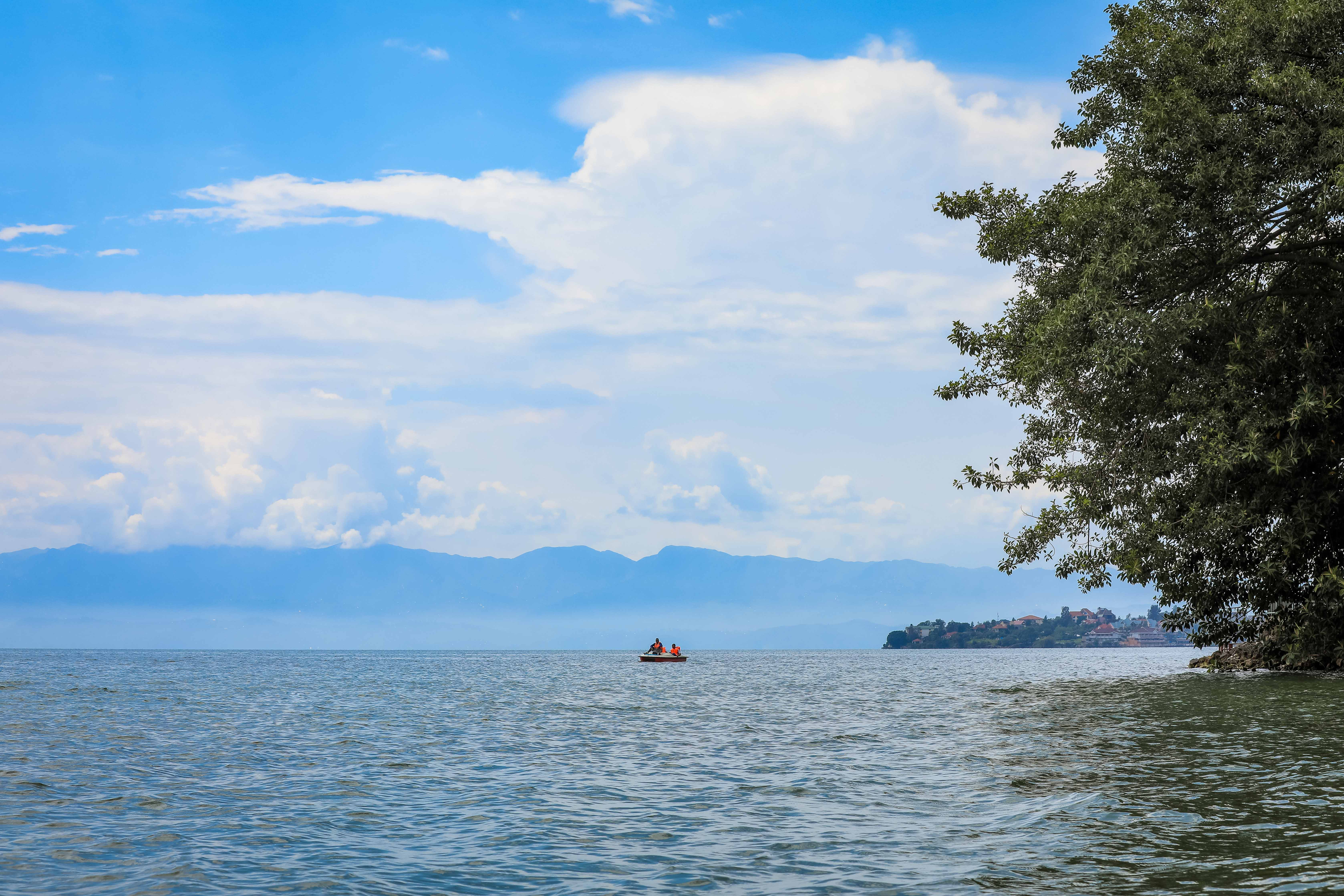 Men ride a boat in Kivu Lake in Rubavu District, Rwanda. Emmanuel Kwizera This is an image with the theme "Africa on the Move or Transport" from: Rwanda